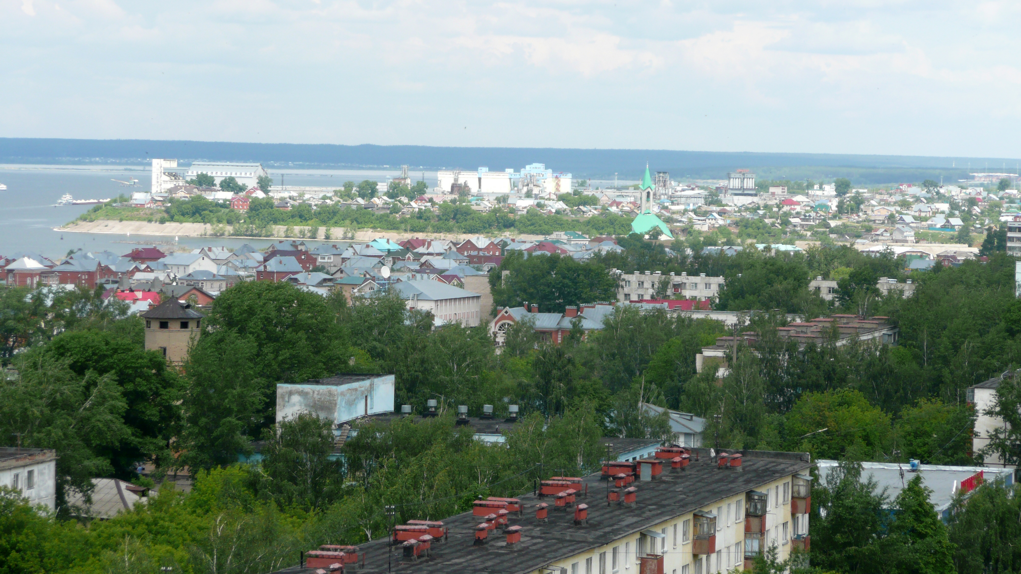 Naberezhnye Chelny - View from the hotel Tatarstan